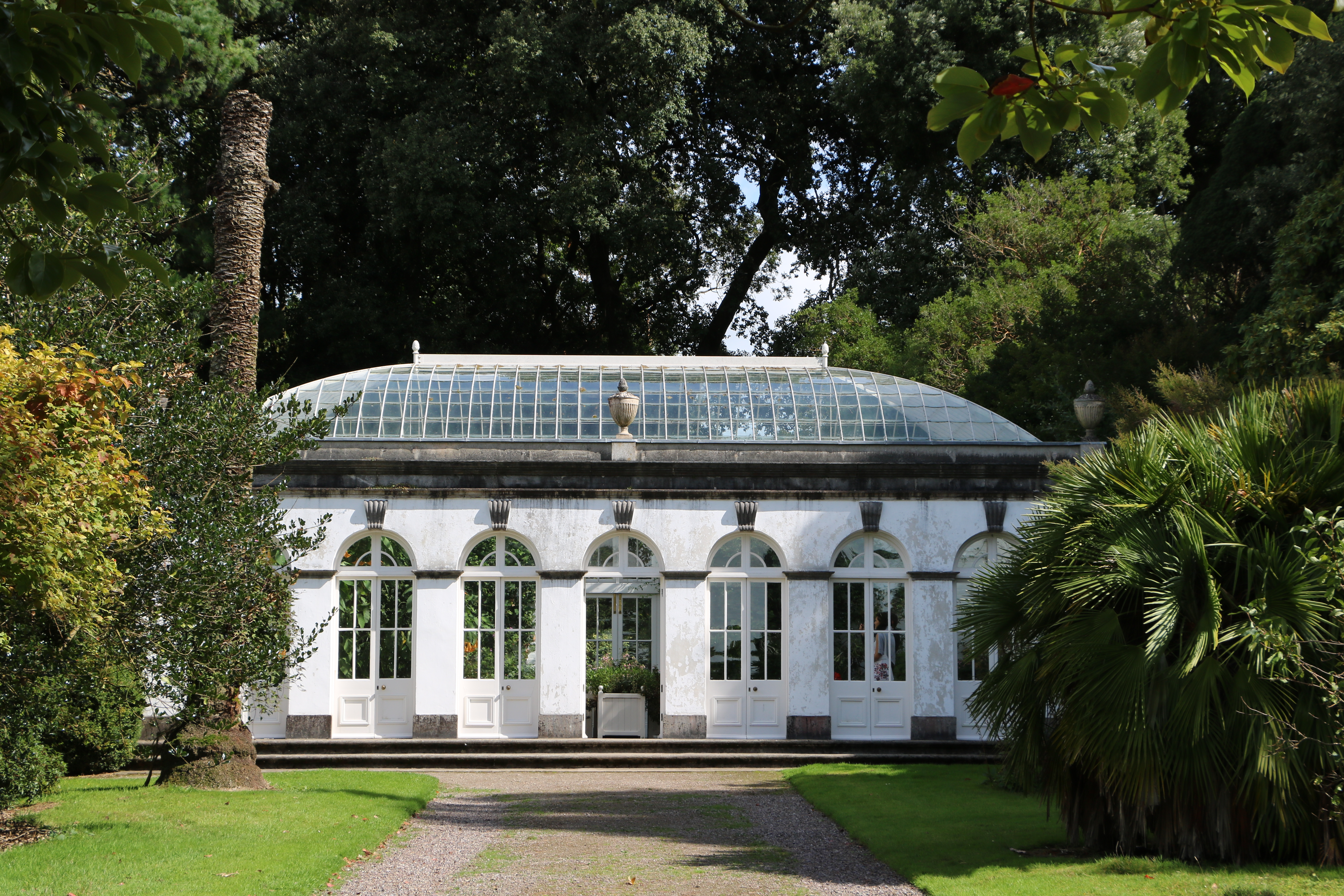 County Cork, Fota House-Orangery. Wikidata has entry Q30161048 with data related to this item.